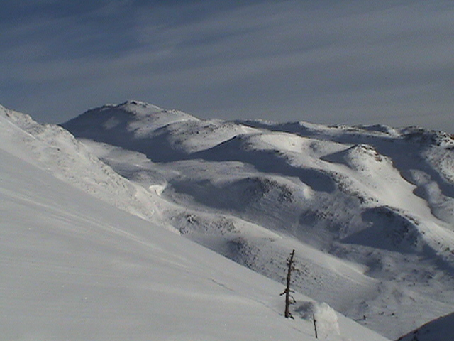 Description: own work